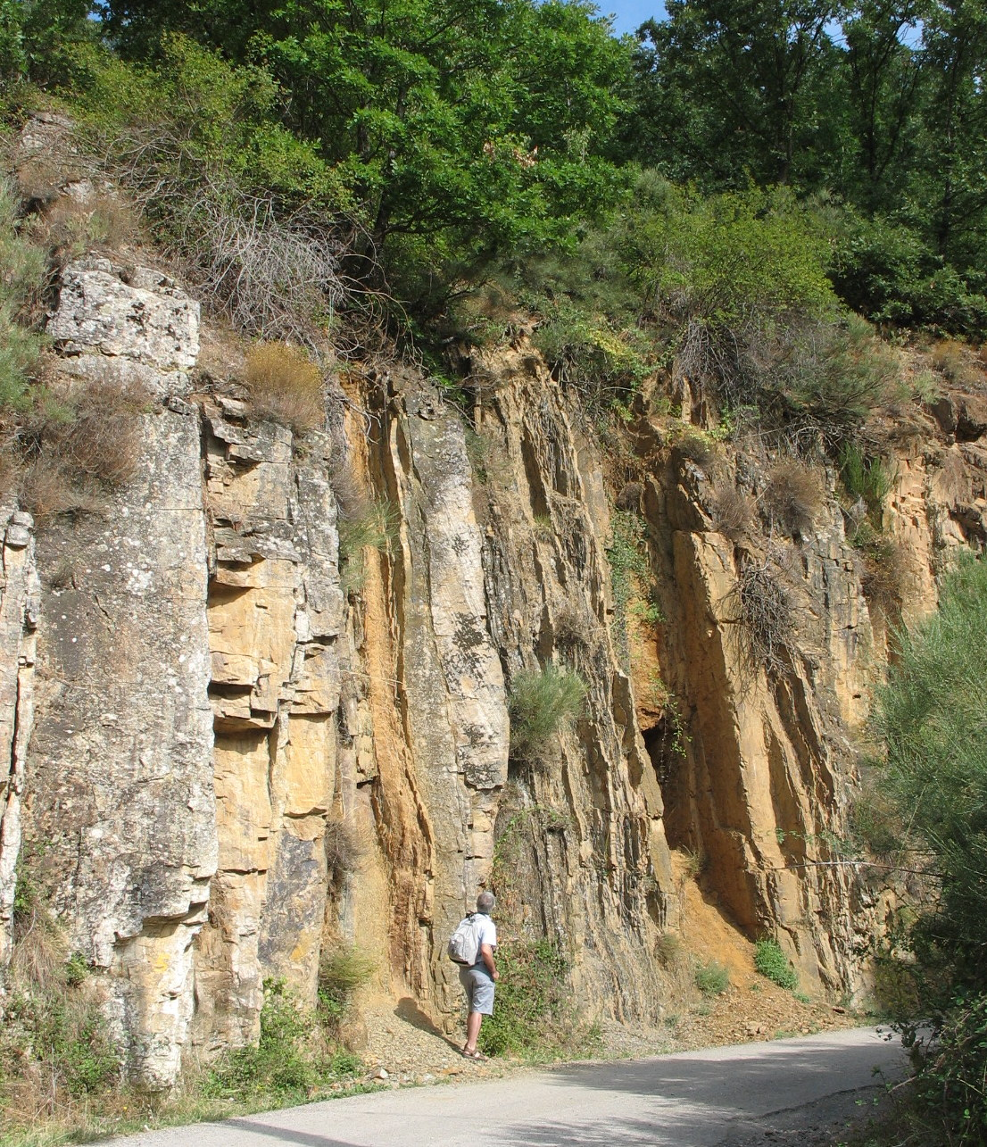 Outcrop of Areniscas de la Herrería Formation (Lower/Early Cambrian) at Barrios de Luna, (León, Spain). Vertically-tilted layers, older on left, younger to the right).